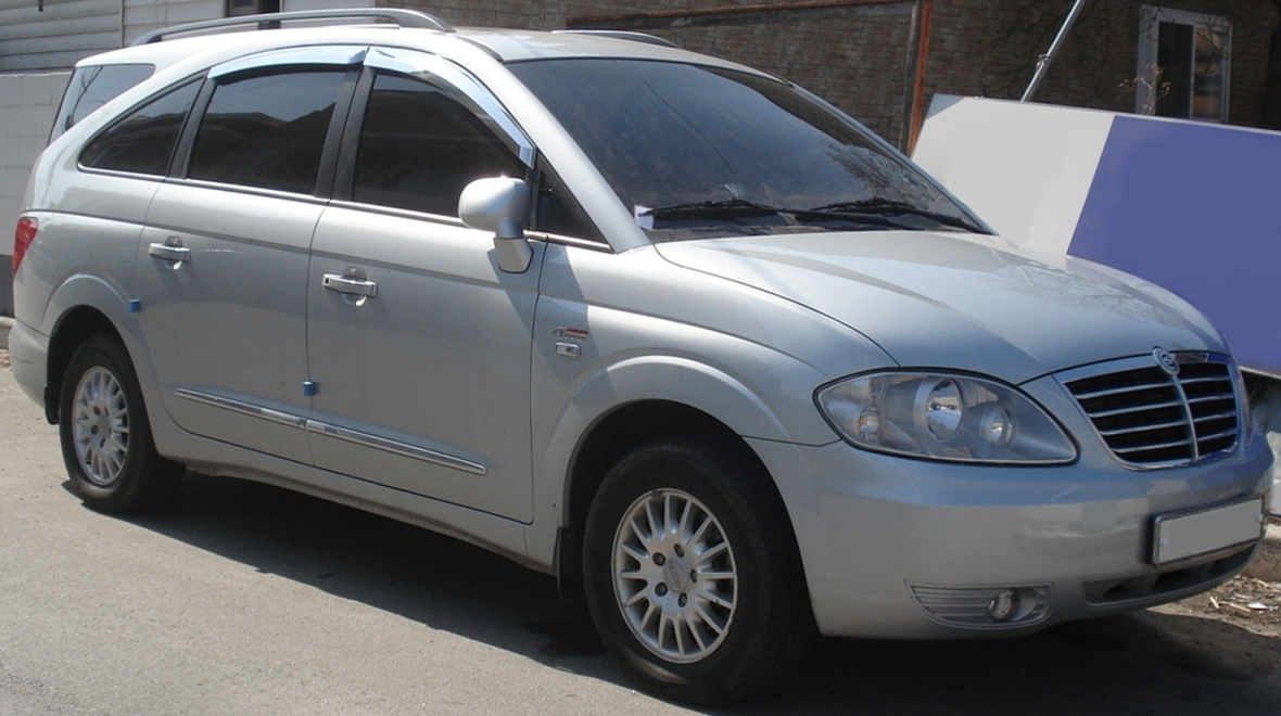 SsangYong New Rodius